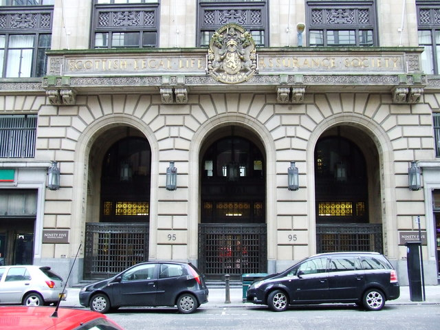 Scottish Legal Life Assurance building. The main entrance at 95 Bothwell Street. See also 671619.